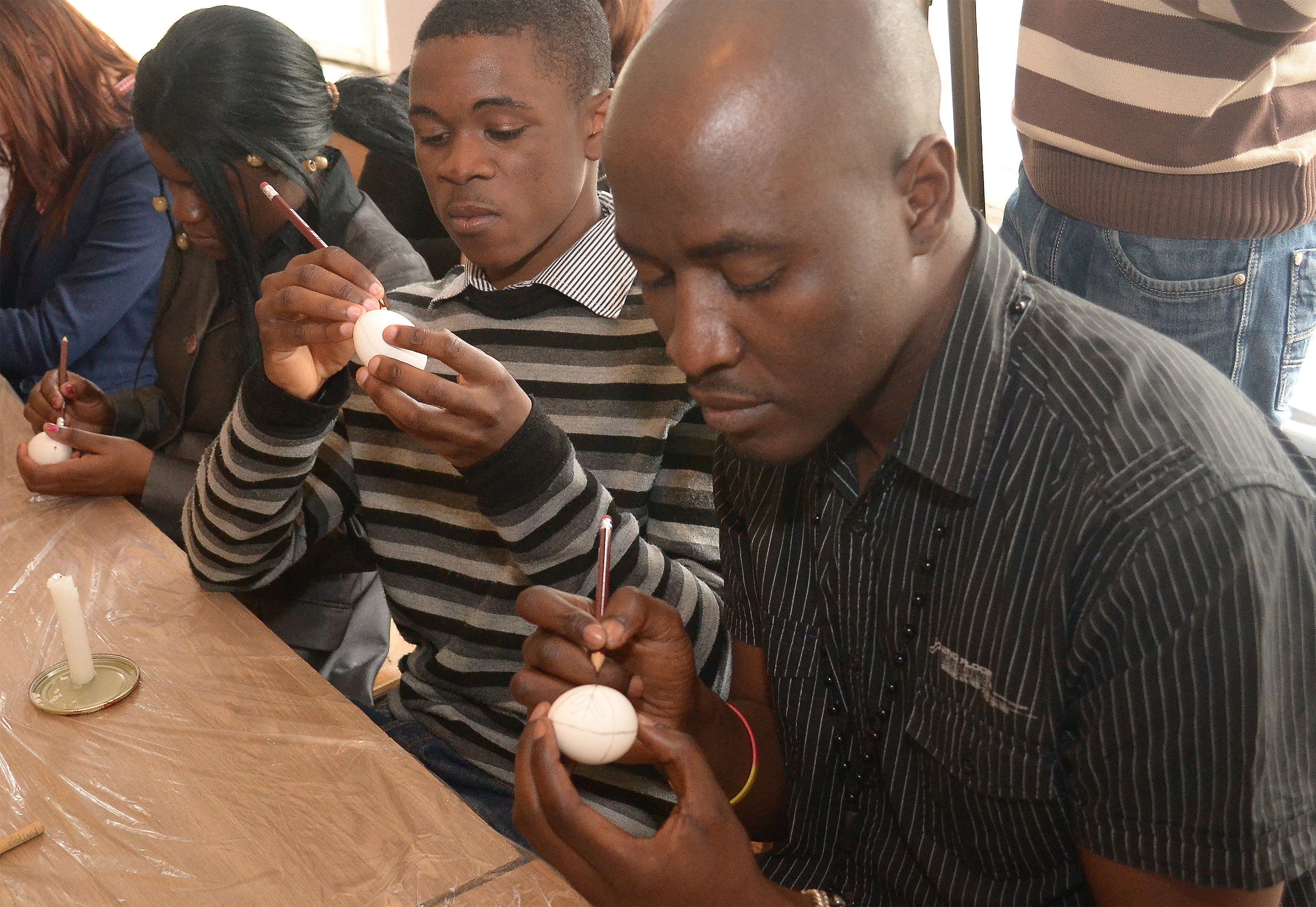 I. Forostiuk's master-class for the Christians of different nationalities.